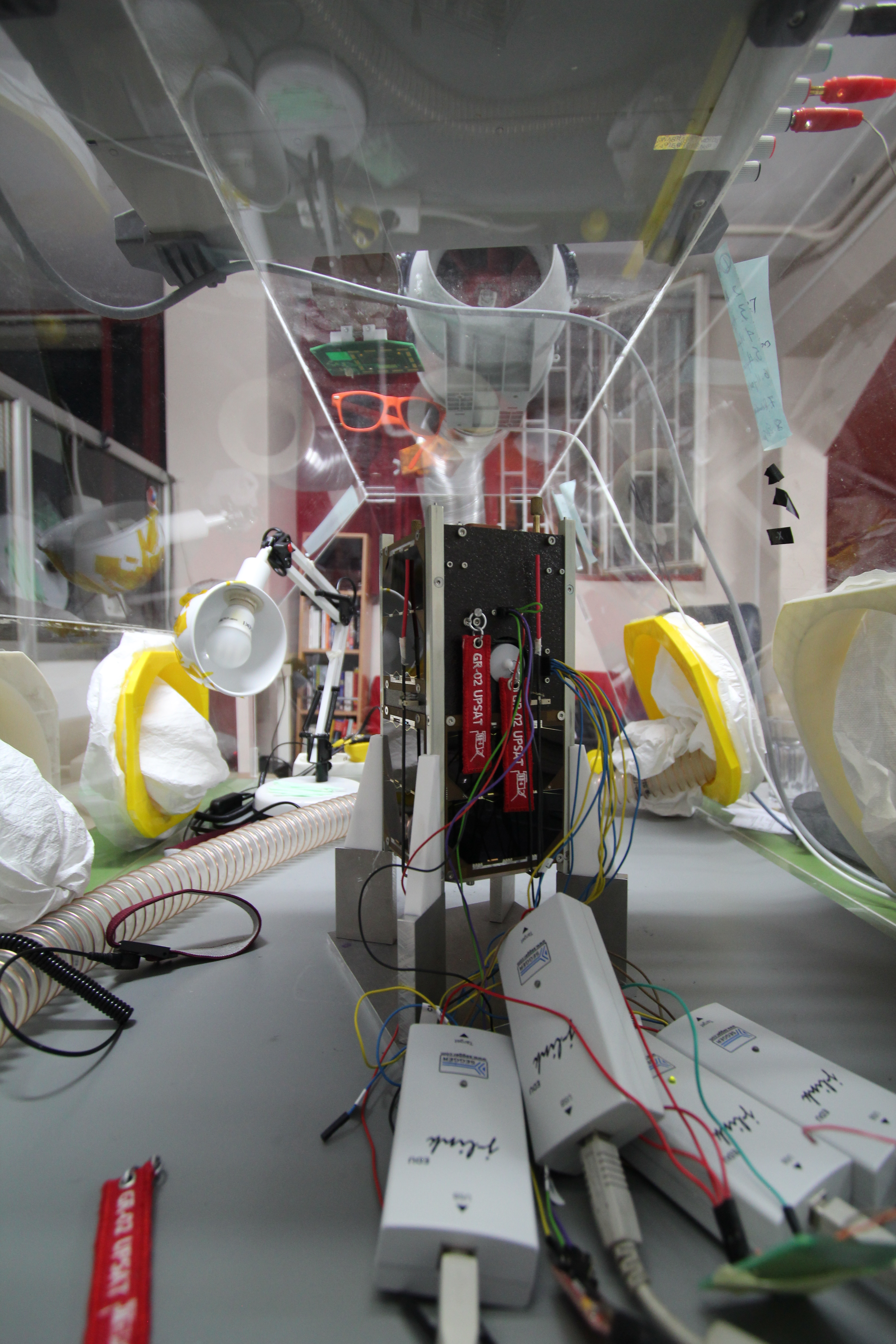 UPSat tested in hackerspace.gr